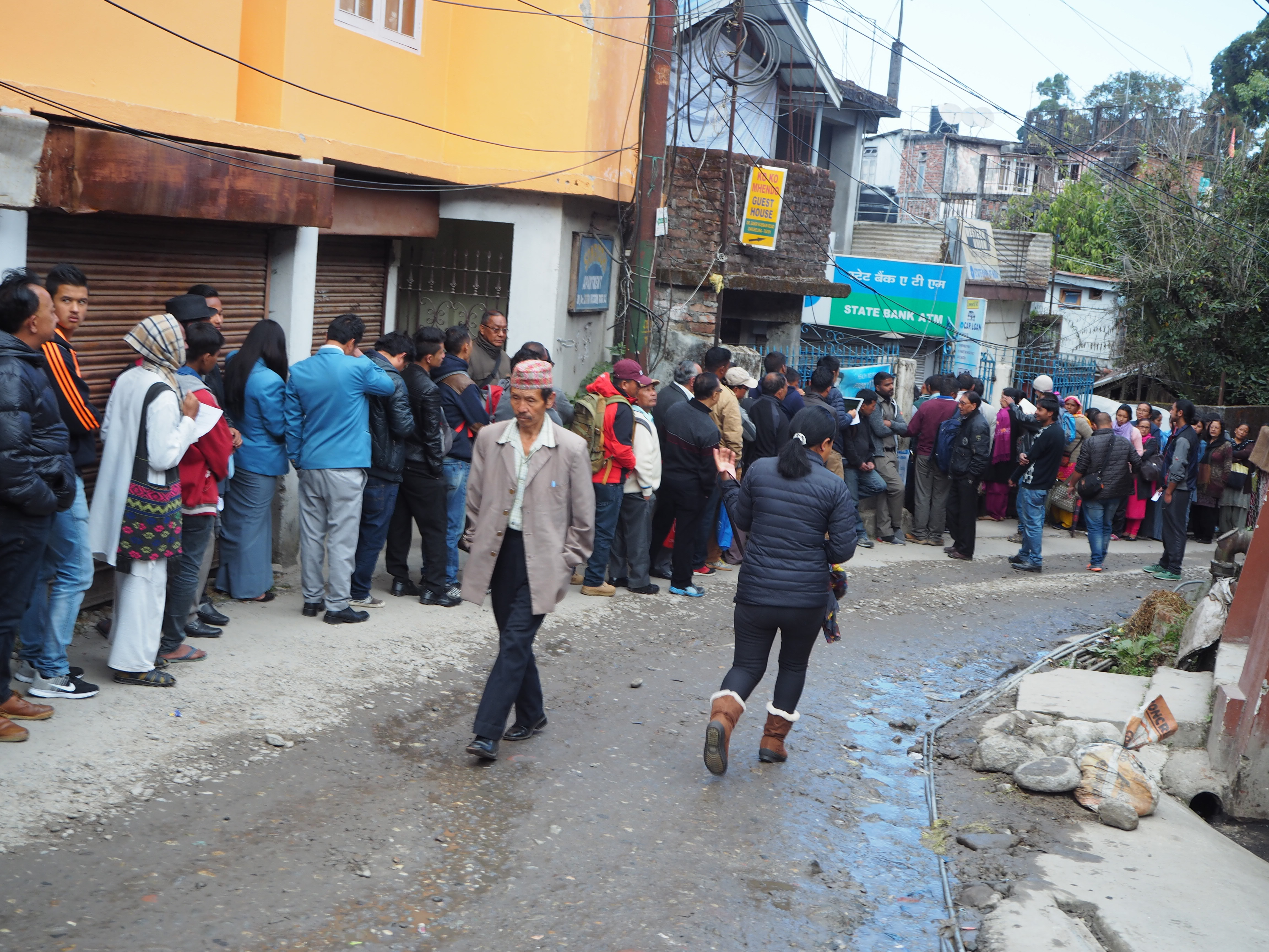 Feel free to use this picture on your website, as long as you indicate "Monito" as the source and link back to our website